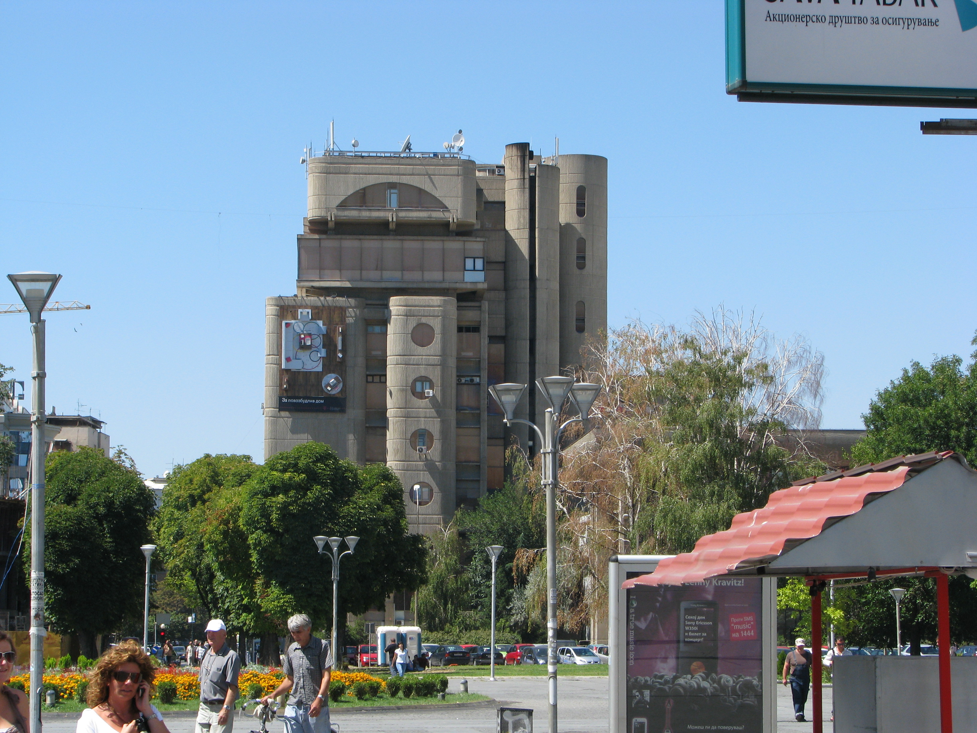 Telecom building in Skopje, Macedonia